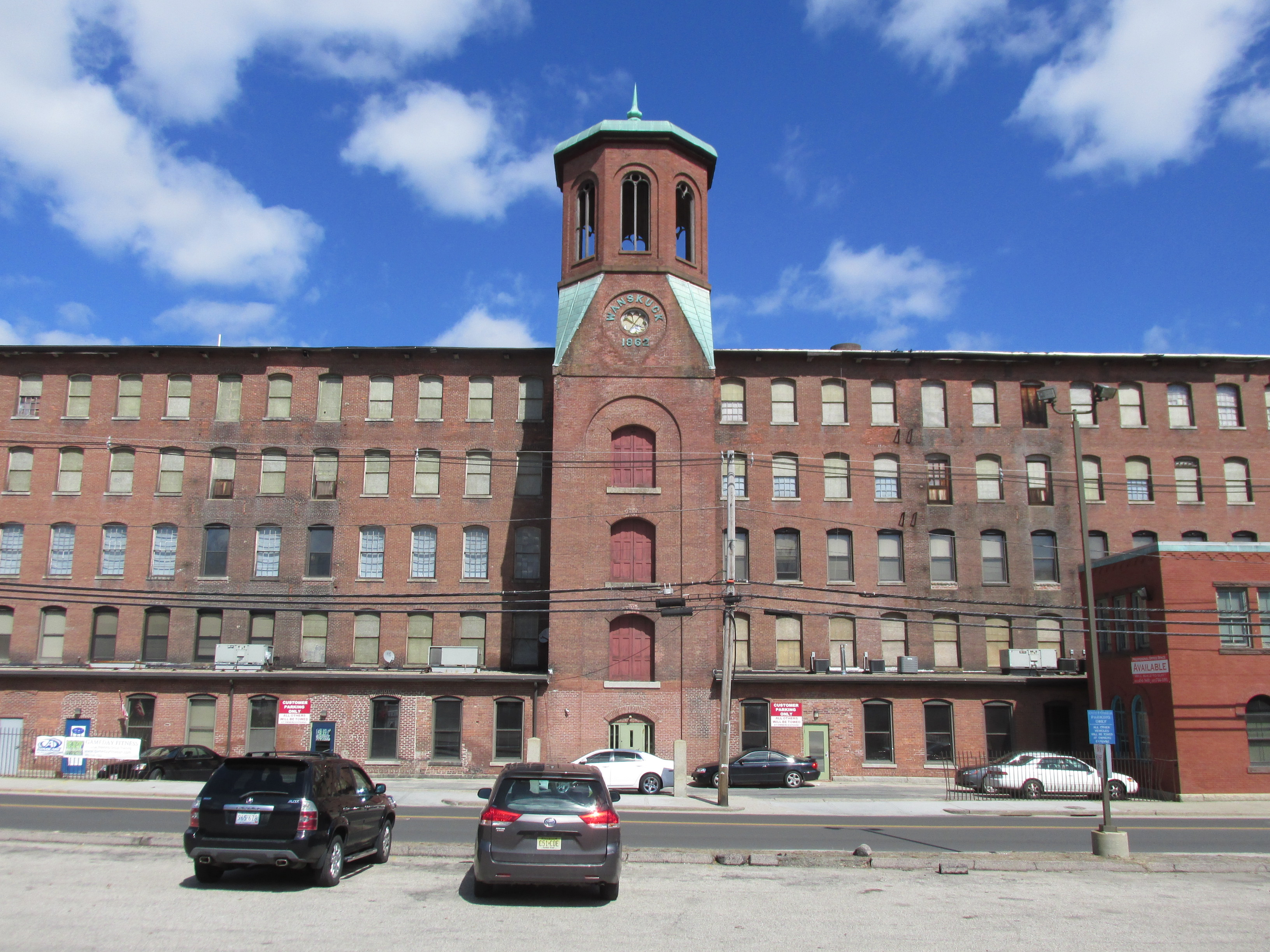 Wanskuck Mills, Providence Rhode Island - 2014